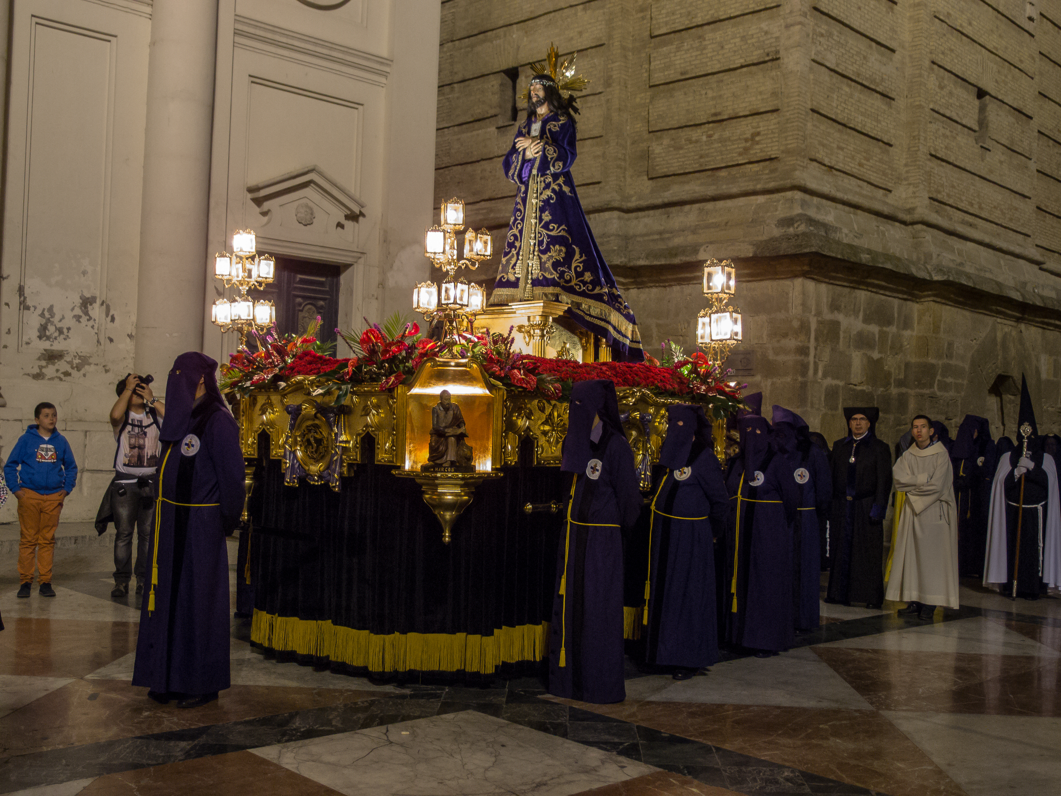 OLYMPUS DIGITAL CAMERA This is a photography of a Folklore festival in Spain (Wikidata id Q9075892).